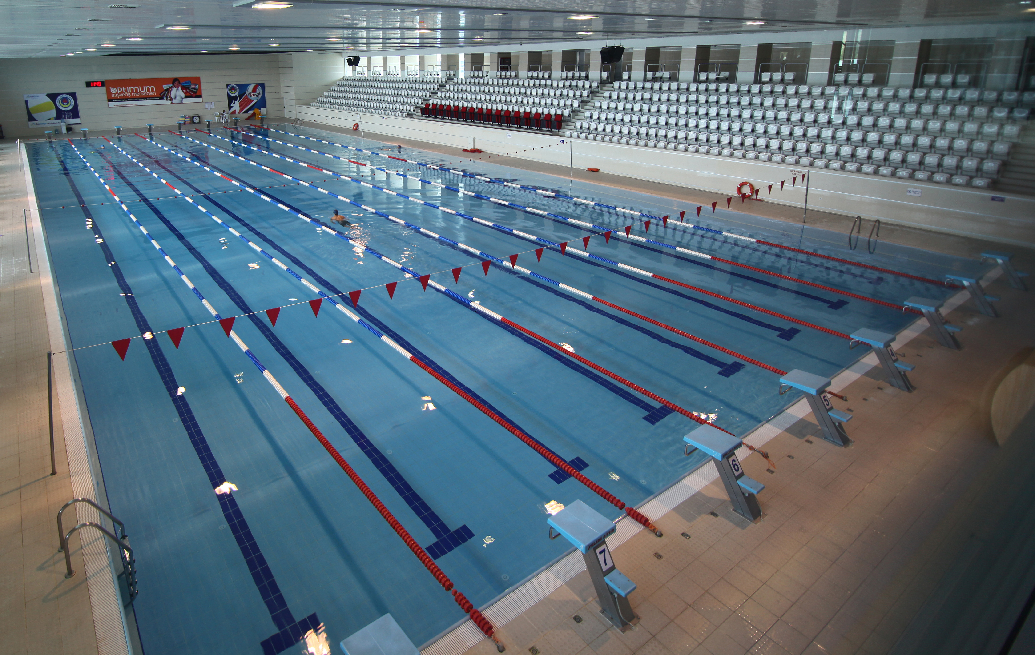 Olympic swiming pool in the sports center of TOBB Economy and Technology University.